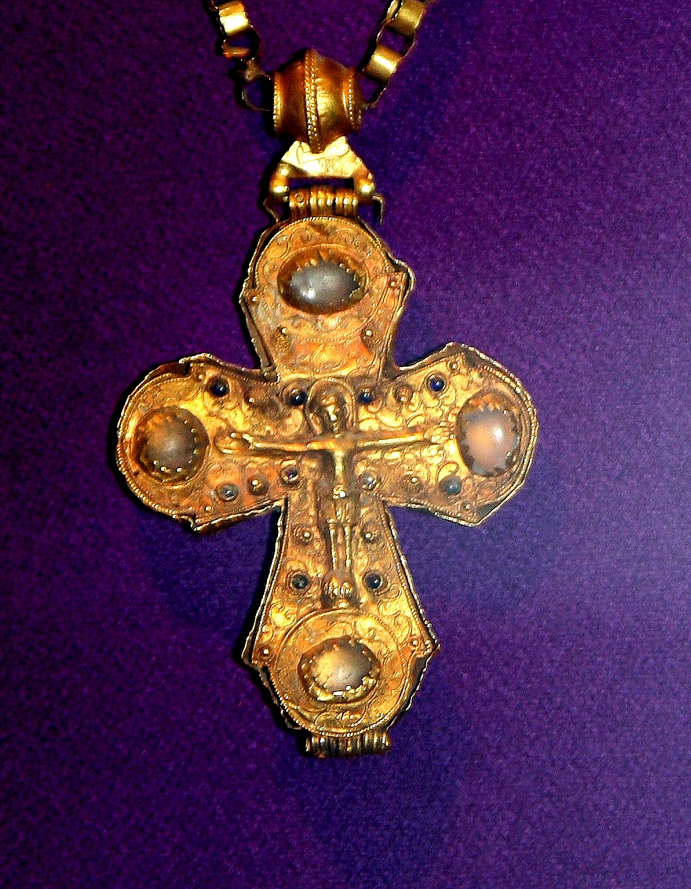 A Byzantine gold crucifix